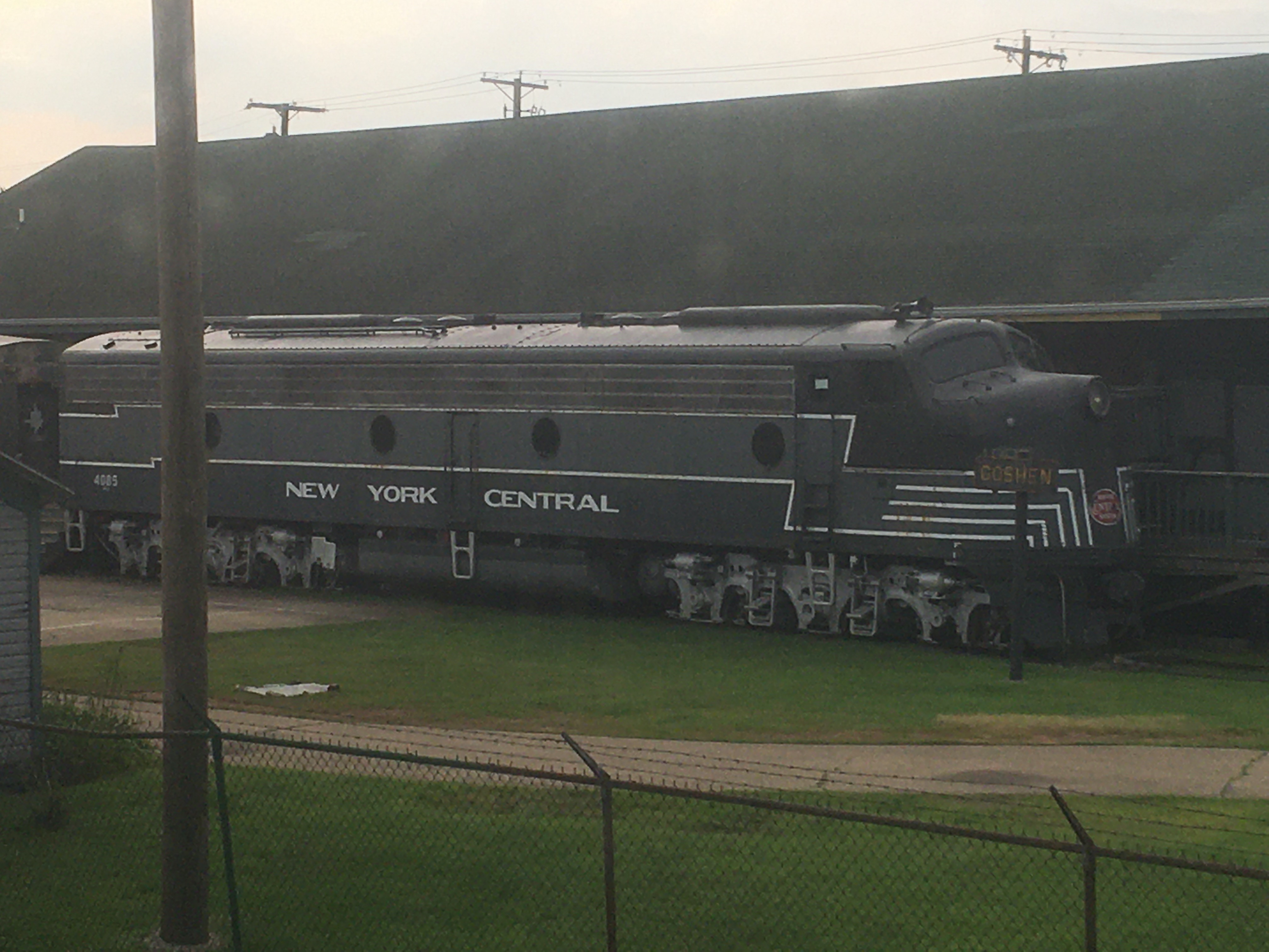 NYCRR Museum engine